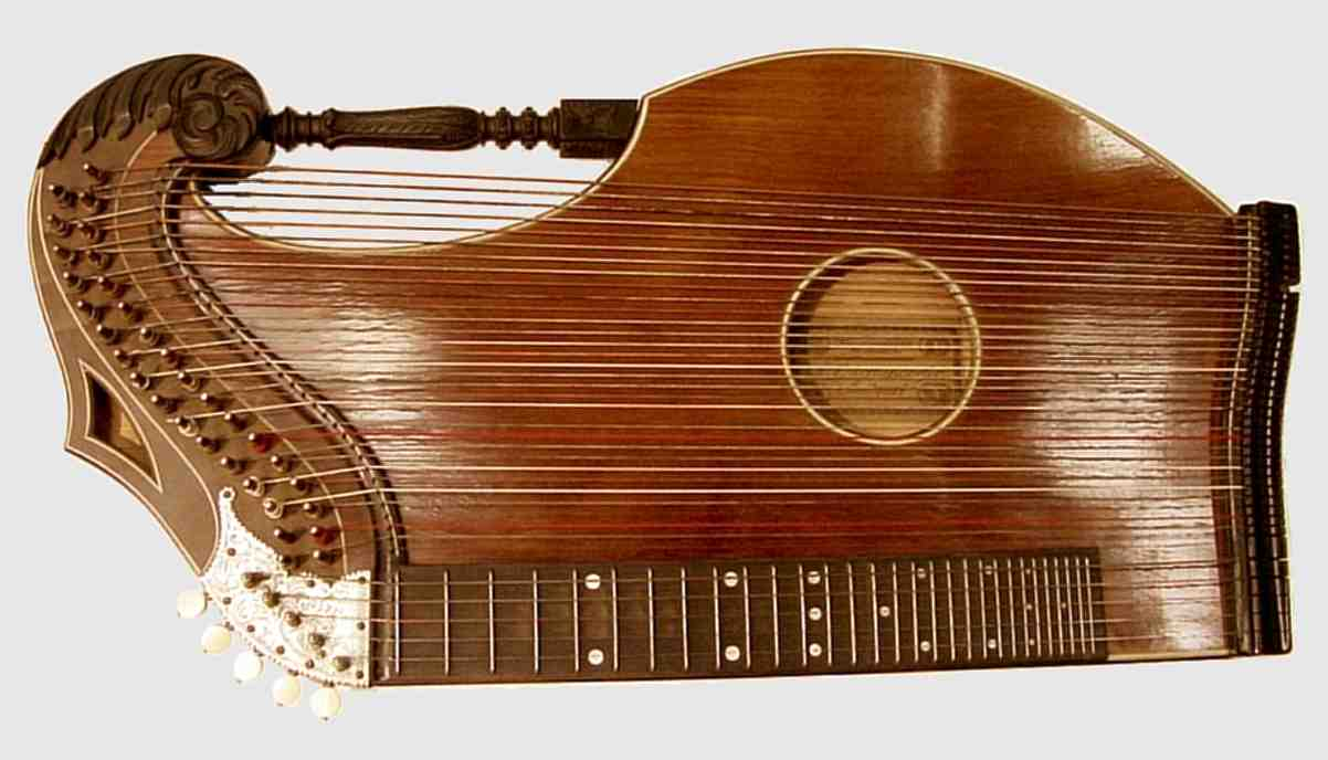 Alpine Zither, also known as a "harp zither".